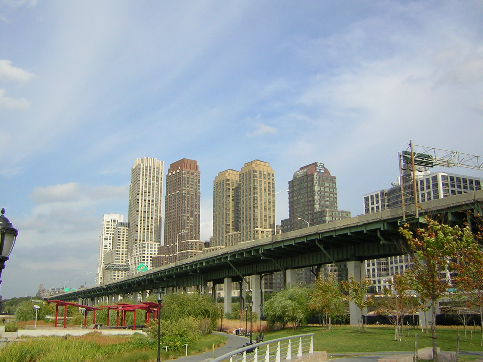 Trump Place buildings loom over an elevated portion of West Side Highway which climbs in turn over Riverside Park South in afternoon sunlight. Replaced May 2009 for the article, by File:Trump Place street jeh.JPG